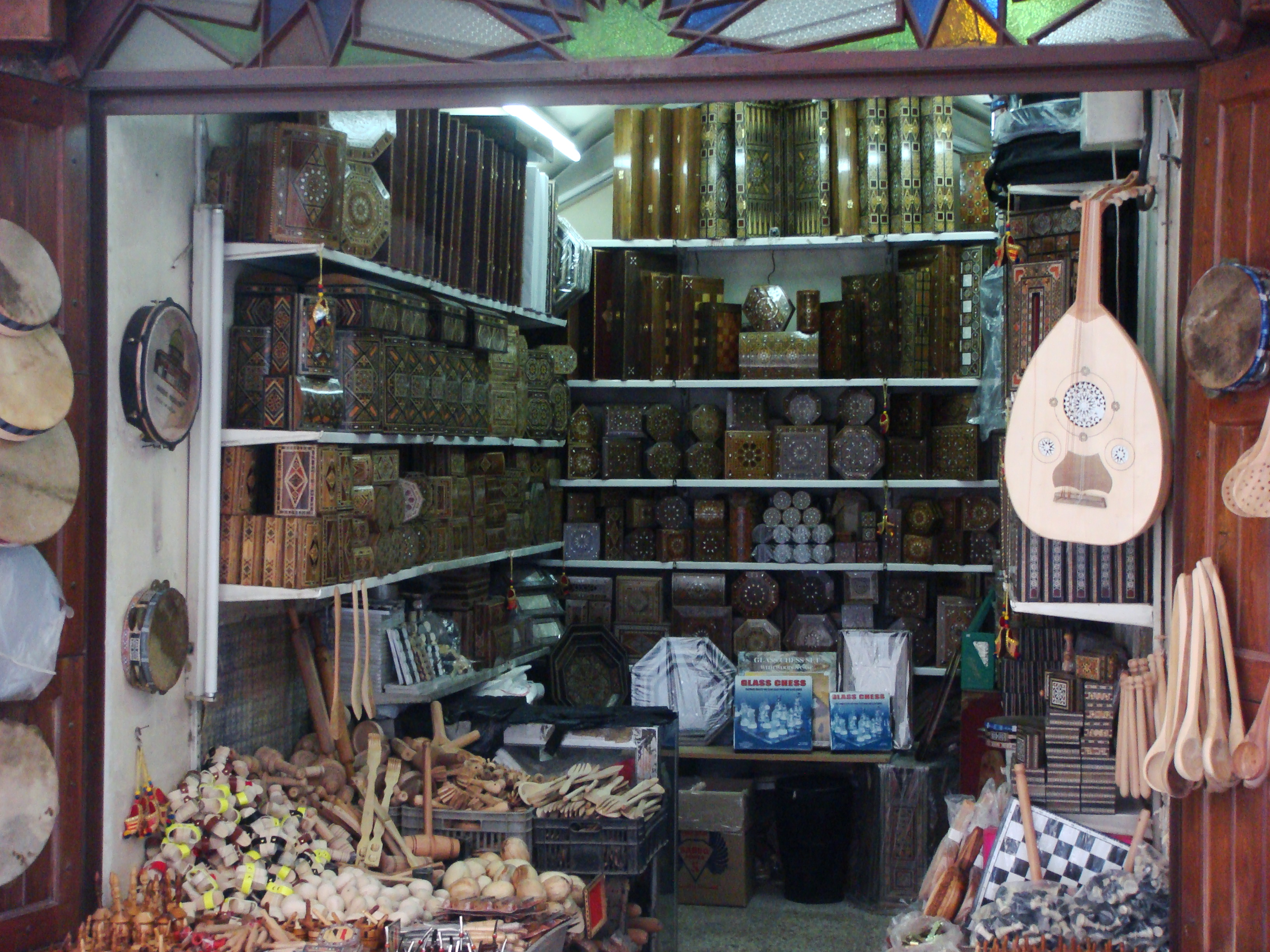 Oriental Shop in Damascus, Syria